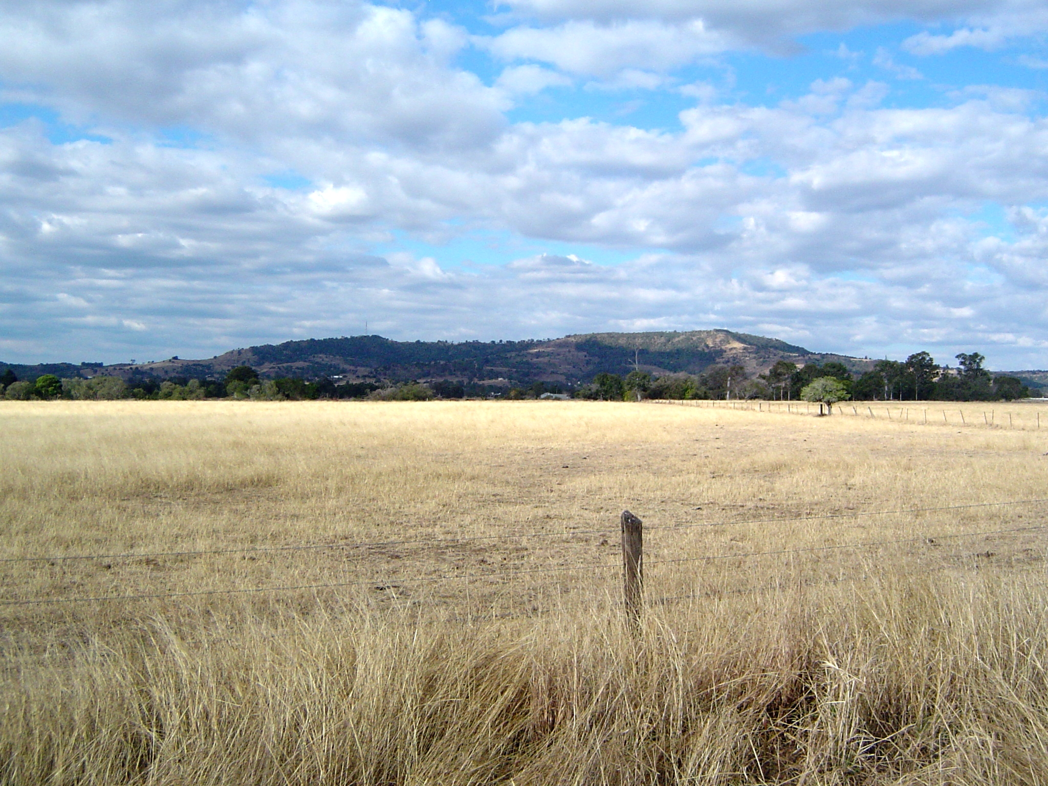 Photo of Mount Stradbroke and paddocks along Rassmussan Road at Coolana, Somerset Region, Queensland, Australia.